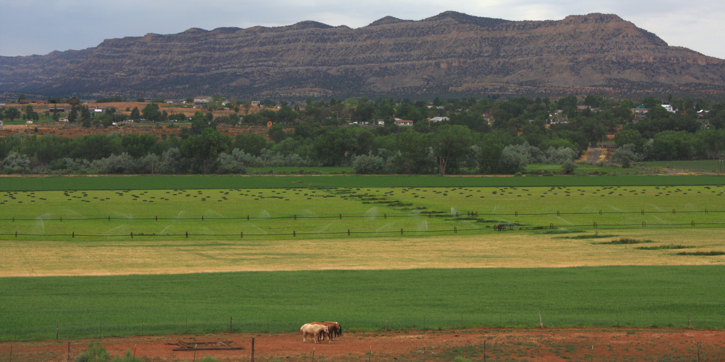 Escalante, Utah, United States - view of town and the Straight Cliffs from the north.